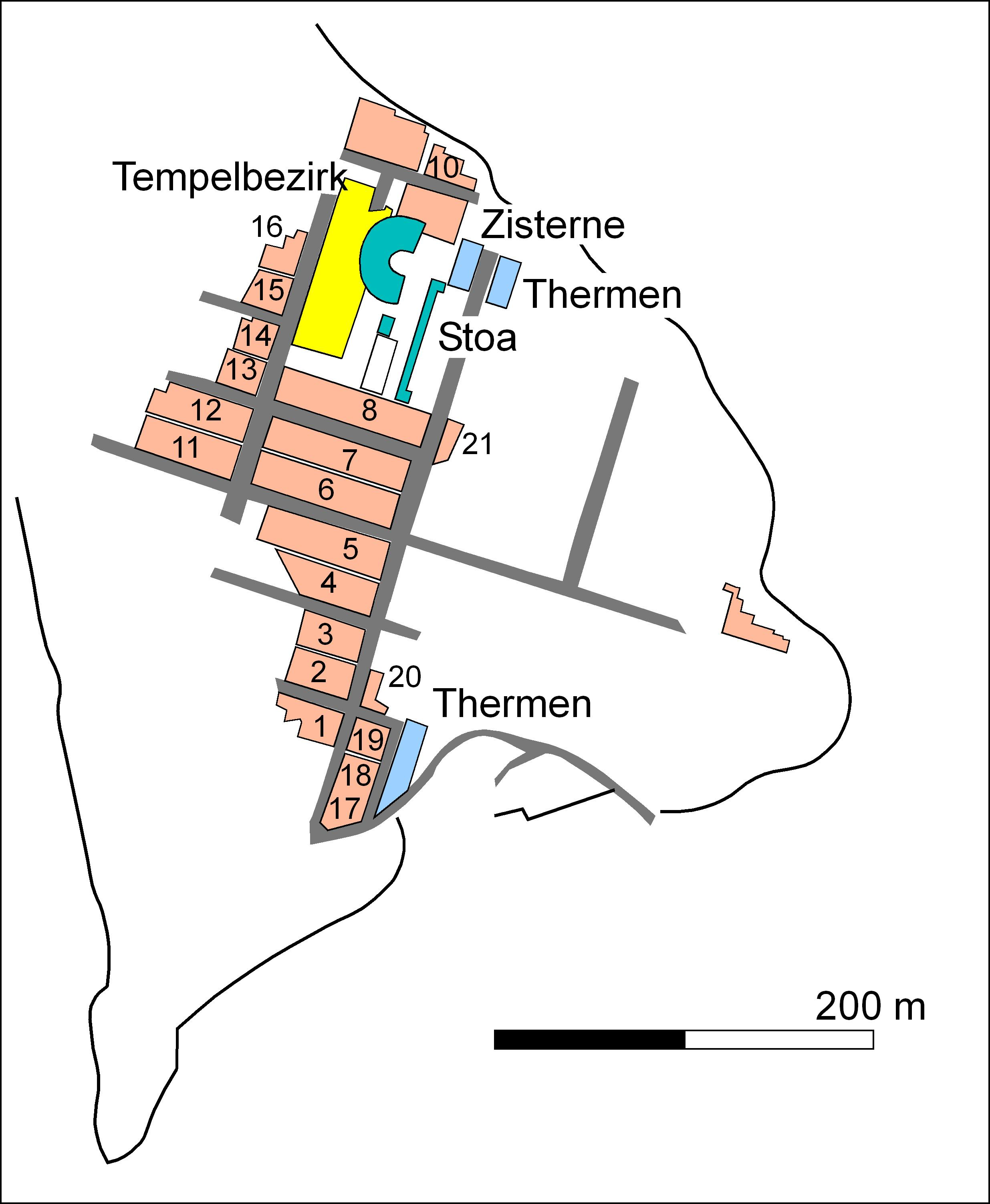 Map of ancient Soluntum